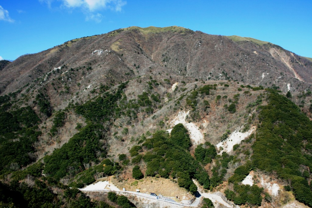 Ryugatake_and_Ishiguretoge